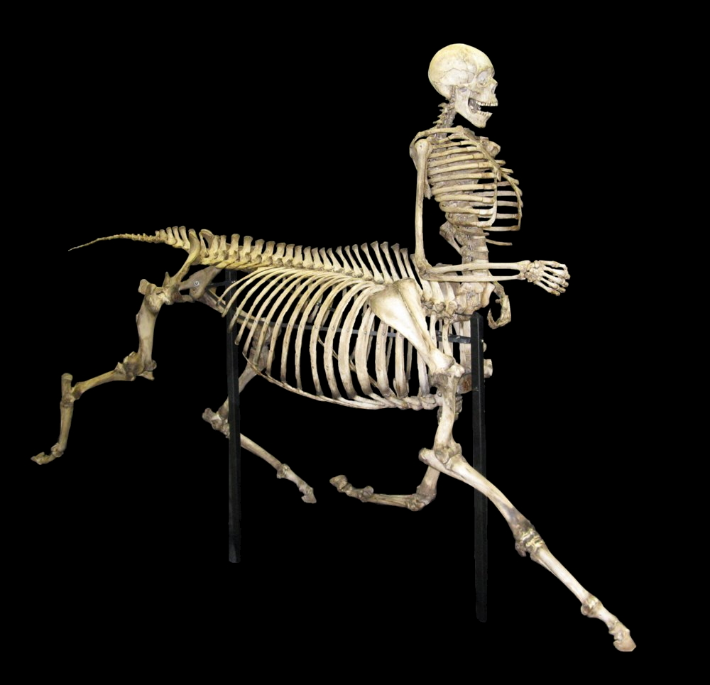 "The Centaur of Tymfi". Centaur skeleton prepared and articulated by Skulls Unlimited International as a work for hire commissioned by Bill Willers.